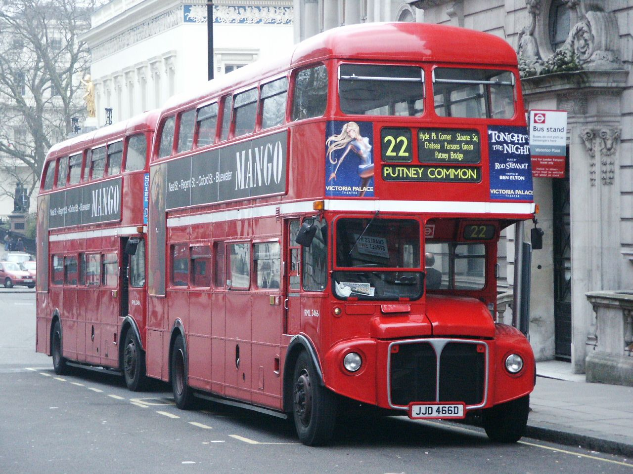 2466-JJD466D 060304 cps